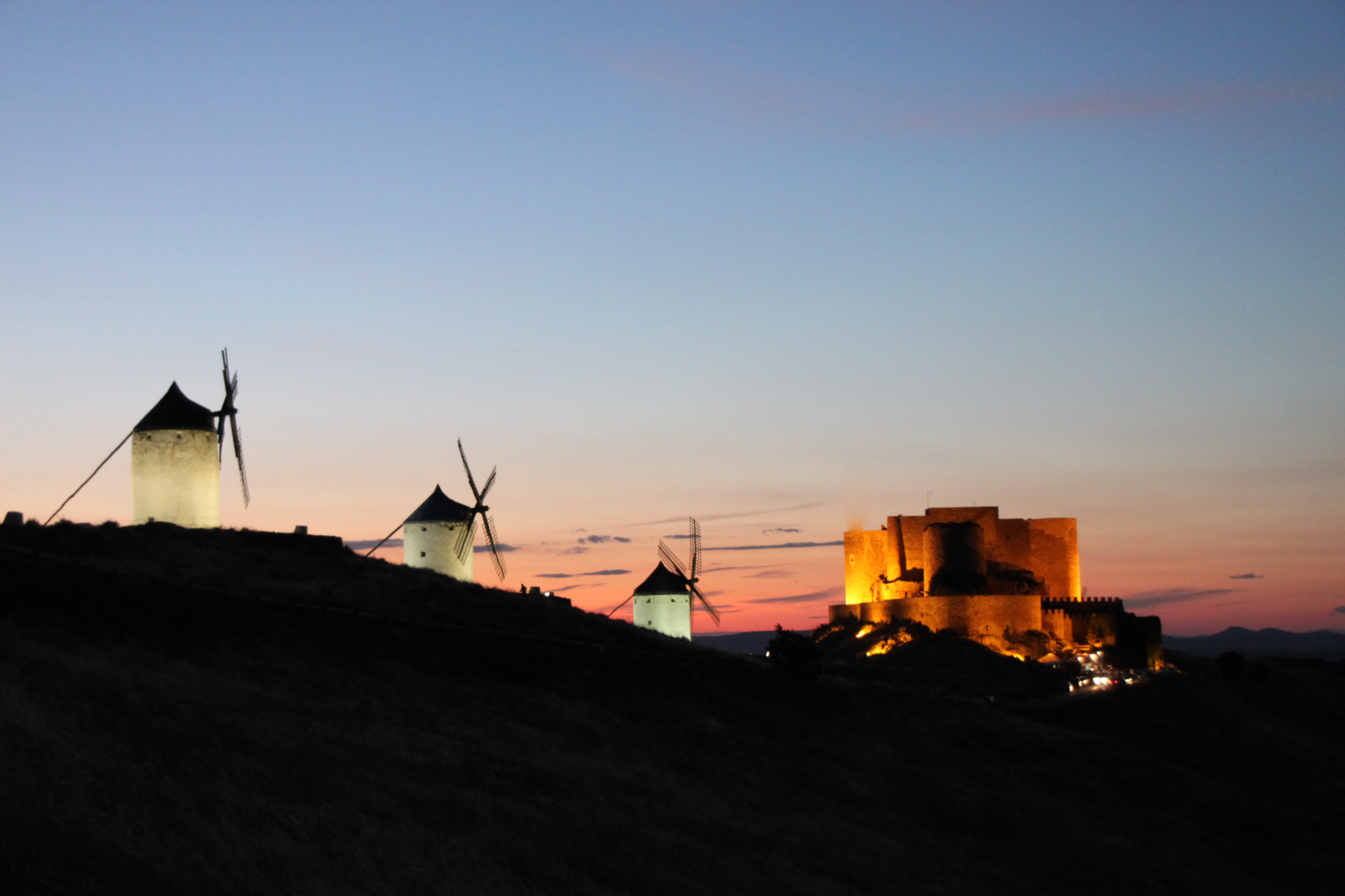 molinos de Consuegra